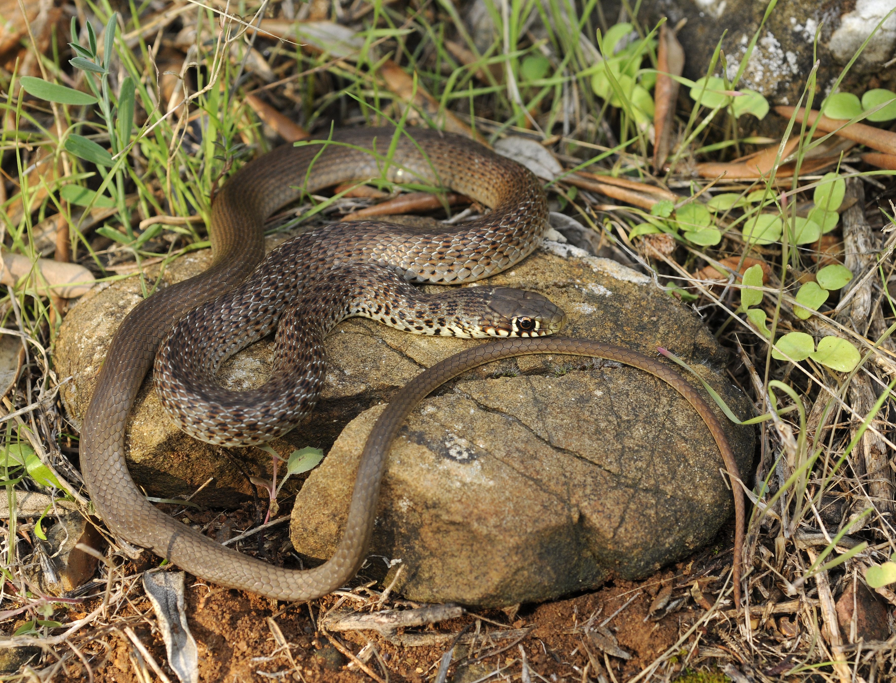 Hierophis gemonensis